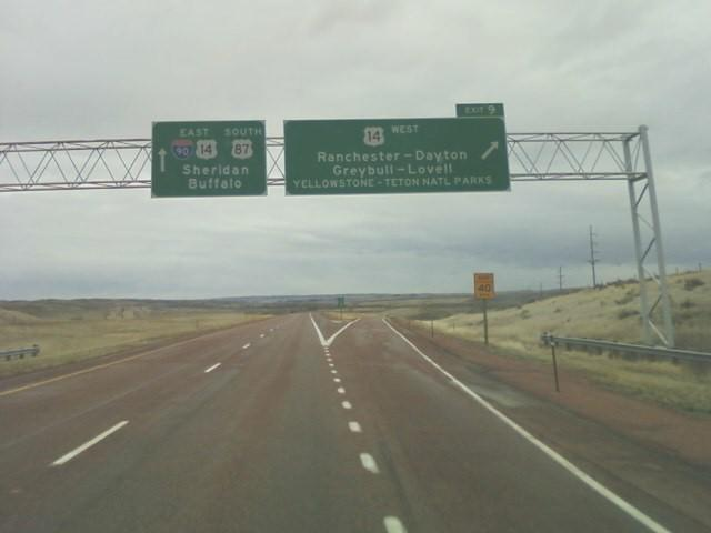 Interstate 90 eastbound at exit 9 in Sheridan County, Wyoming.